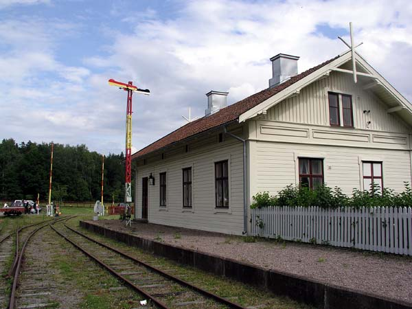 The train station in Valla